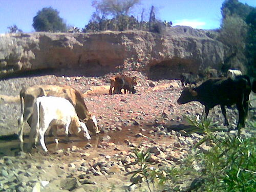 Vacas en arroyo.